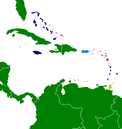 This map shows the various areas of the Caribbean by political system, or in the case of dependencies, the parent country.